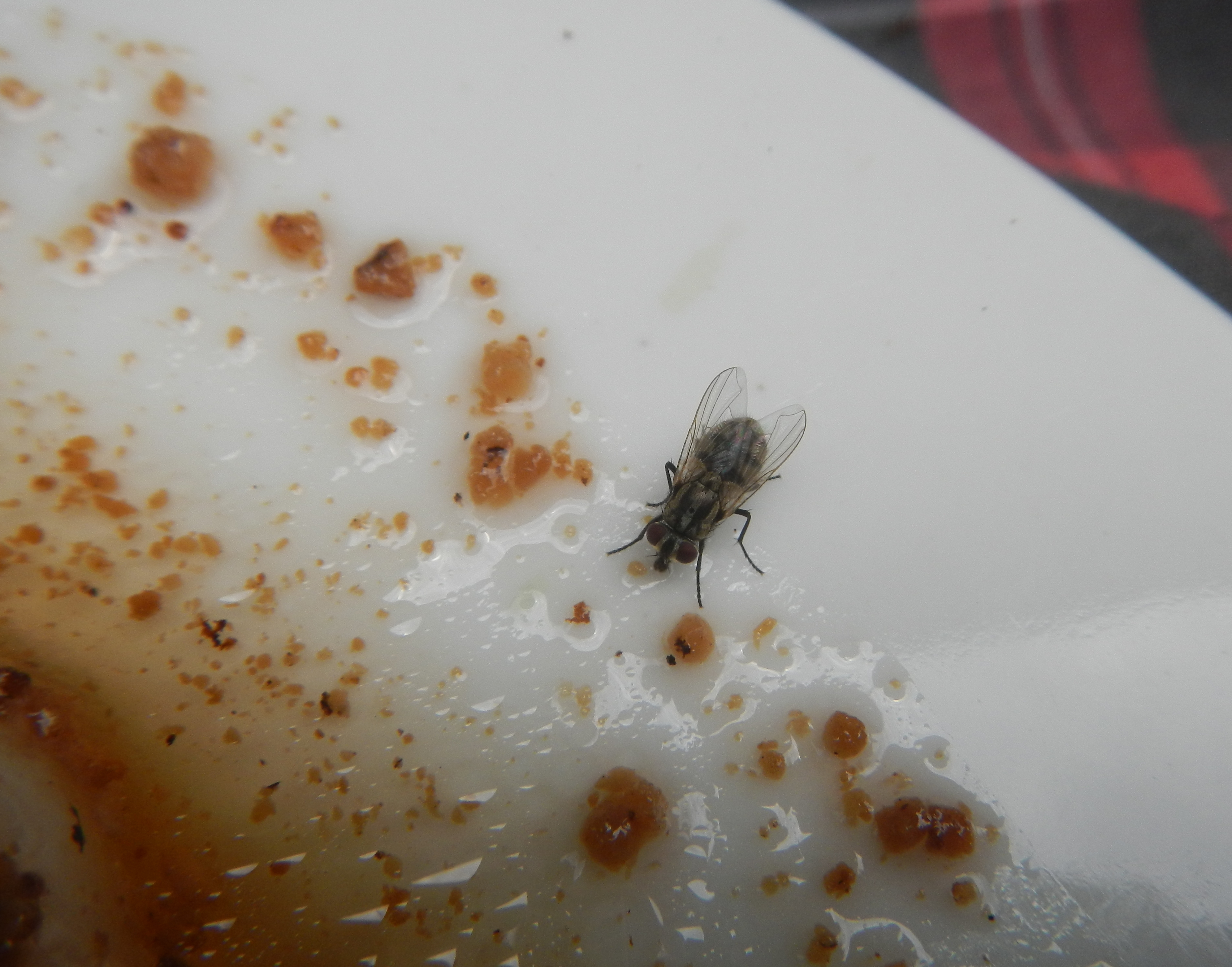 Kakanin Malagkit with common houseflies Common houseflies eating Espasol Palabok Macaroni soup Jollibee products in the Philippines Yacón (Philippines) Potatoes of the Philippines Labanos photos taken in Barangay Poblacion 14°57'17"N 120°54'2"E Baliuag, Bulacan, Bulacan province (Note: Judge Florentino Floro, the owner, to repeat, Donor Florentino Floro of all these photos hereby donate gratuitously, freely and unconditionally all these photos to and for Wikimedia Commons, exclusively, for public use of the public domain, and again without any condition whatsoever).